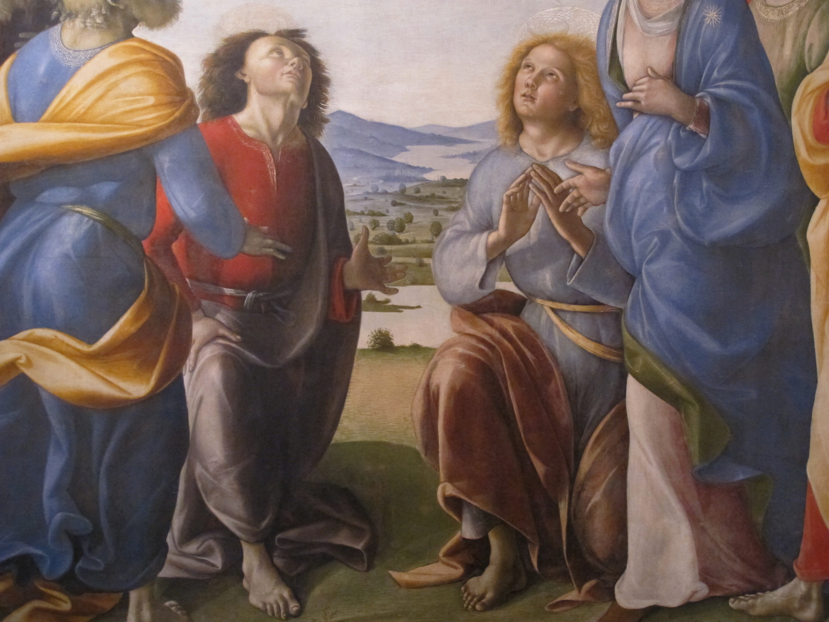 Painting in the National Pinacotheque, Siena